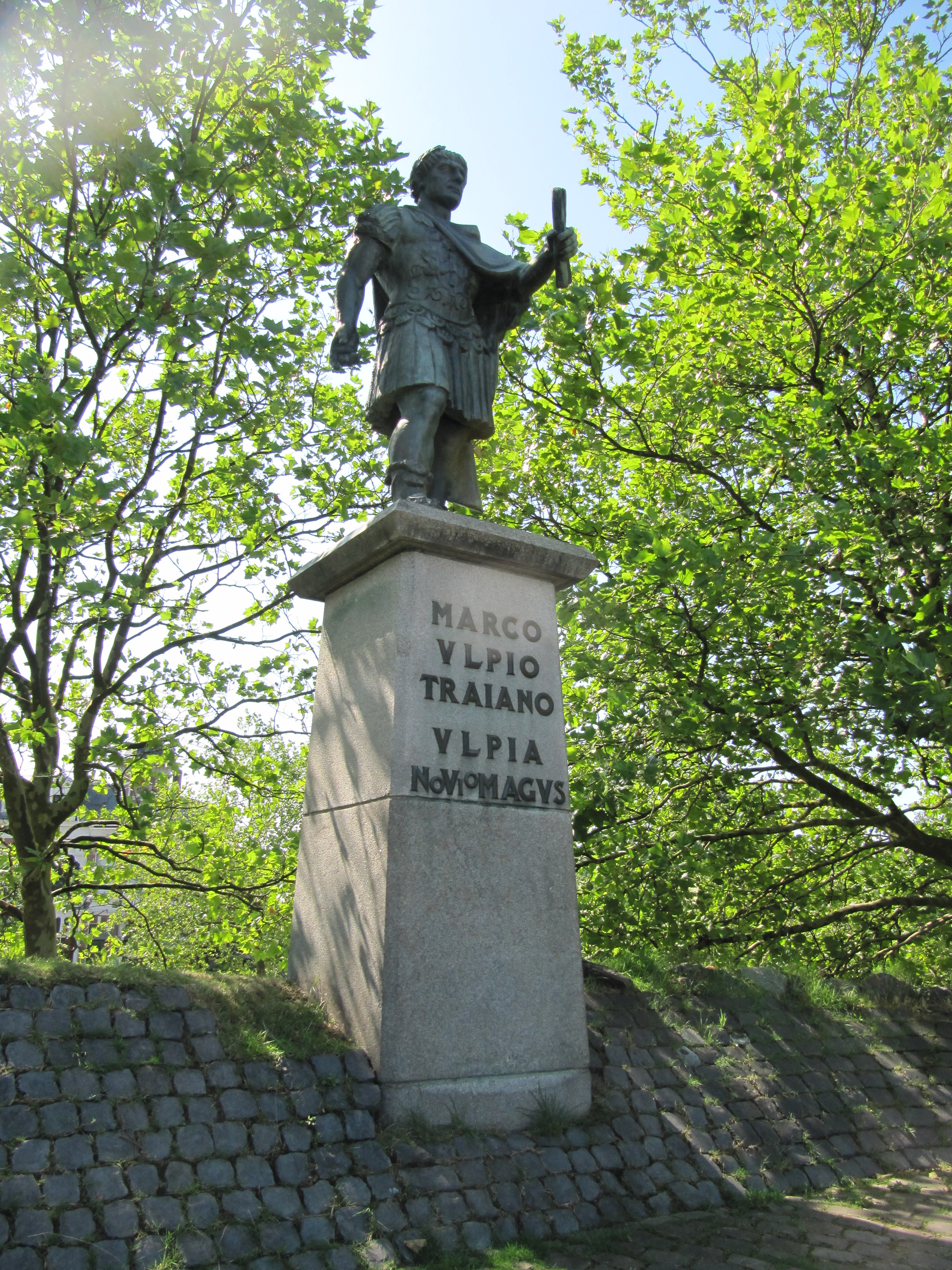 Statue of emperor Traianus created by Charles Wammes and Ed van Teeseling at the Keizer Traianusplein in Nijmegen, The Netherlands